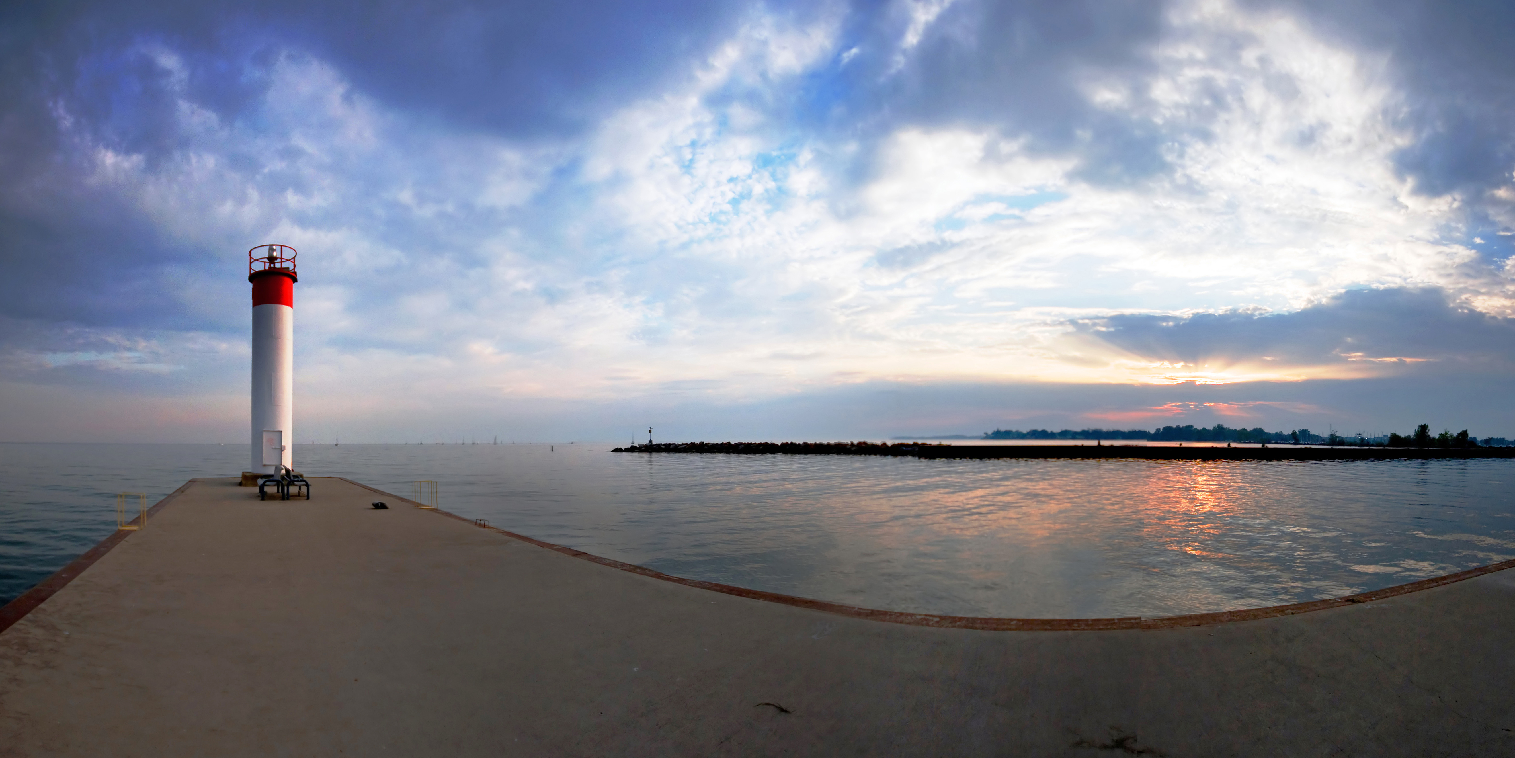 Whitby Harbour